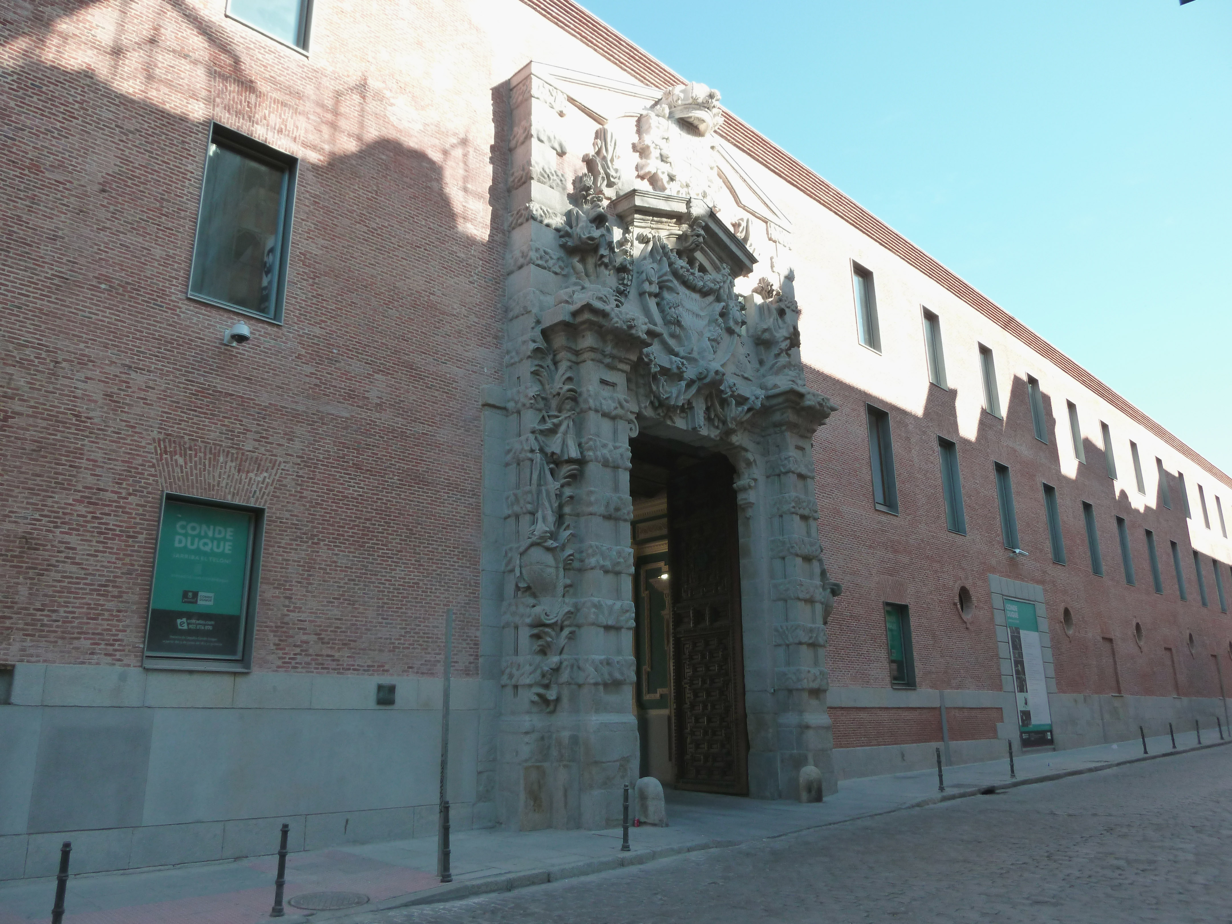 Façade of Cuartel del Conde-Duque in Madrid (Spain).